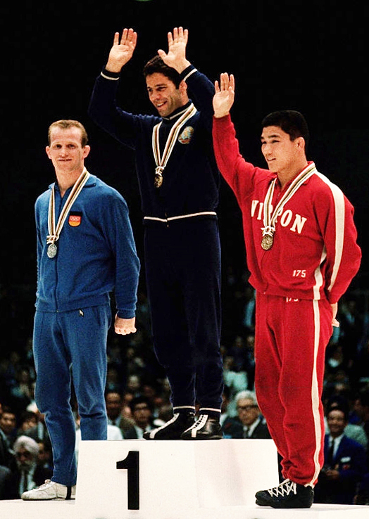 Gold Medalist Enyu Valtchev (C) of Bulgaria, Silver Medalist Klaus-Jurgen Rost of Germany and Bronze Medalist Iwao Horiuchi of Japan waves on the podium at the award ceremony of Wrestling Freestyle Lightweight during Tokyo Olympic at Komazawa Gymnasium on October 14, 1964 in Tokyo, Japan.